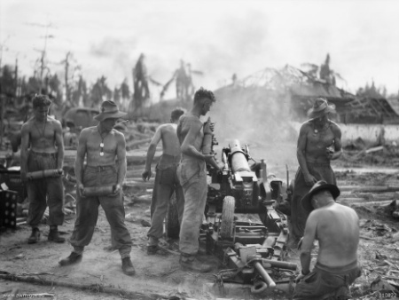 Australian War Memorial image 110822. Gunners from 8 Battery, D Troop, 2/4th Field Regiment fire a Ordnance QF 25-pounder Short at Japanese positions at Balikpapan, Borneo